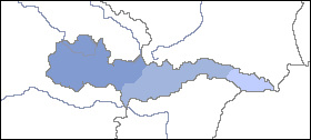 Location map of the Second Czechoslovak Republic (1938-1939)